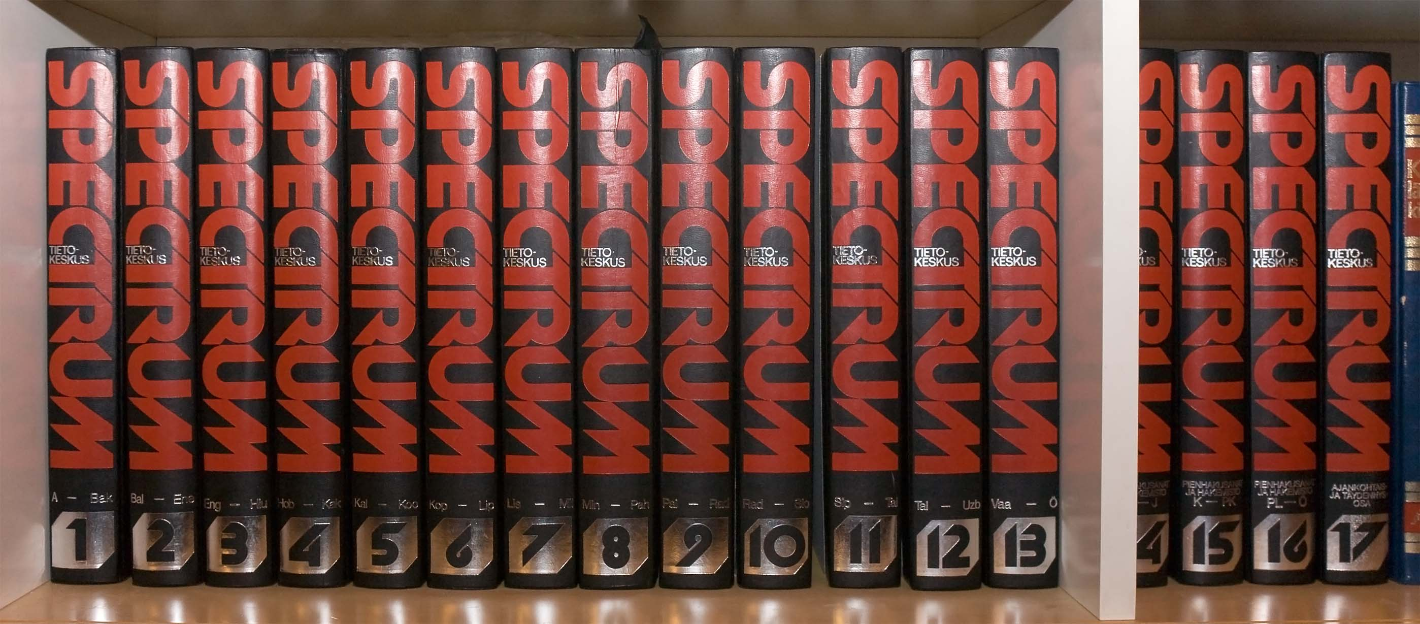 Finnish encyclopedia 'Spectrum Tietokeskus' published by WSOY in years 1976–1987.